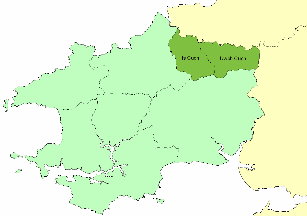 Map of the cantref of Emlyn, showing its location in ancient Dyfed, and its two commotes.